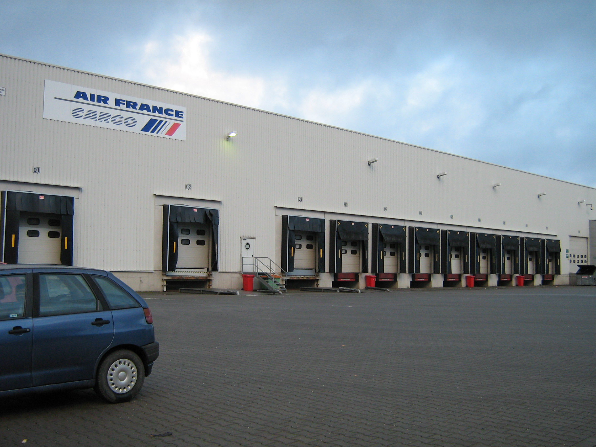 Air France Freight terminal at Frankfurt Hahn Airport